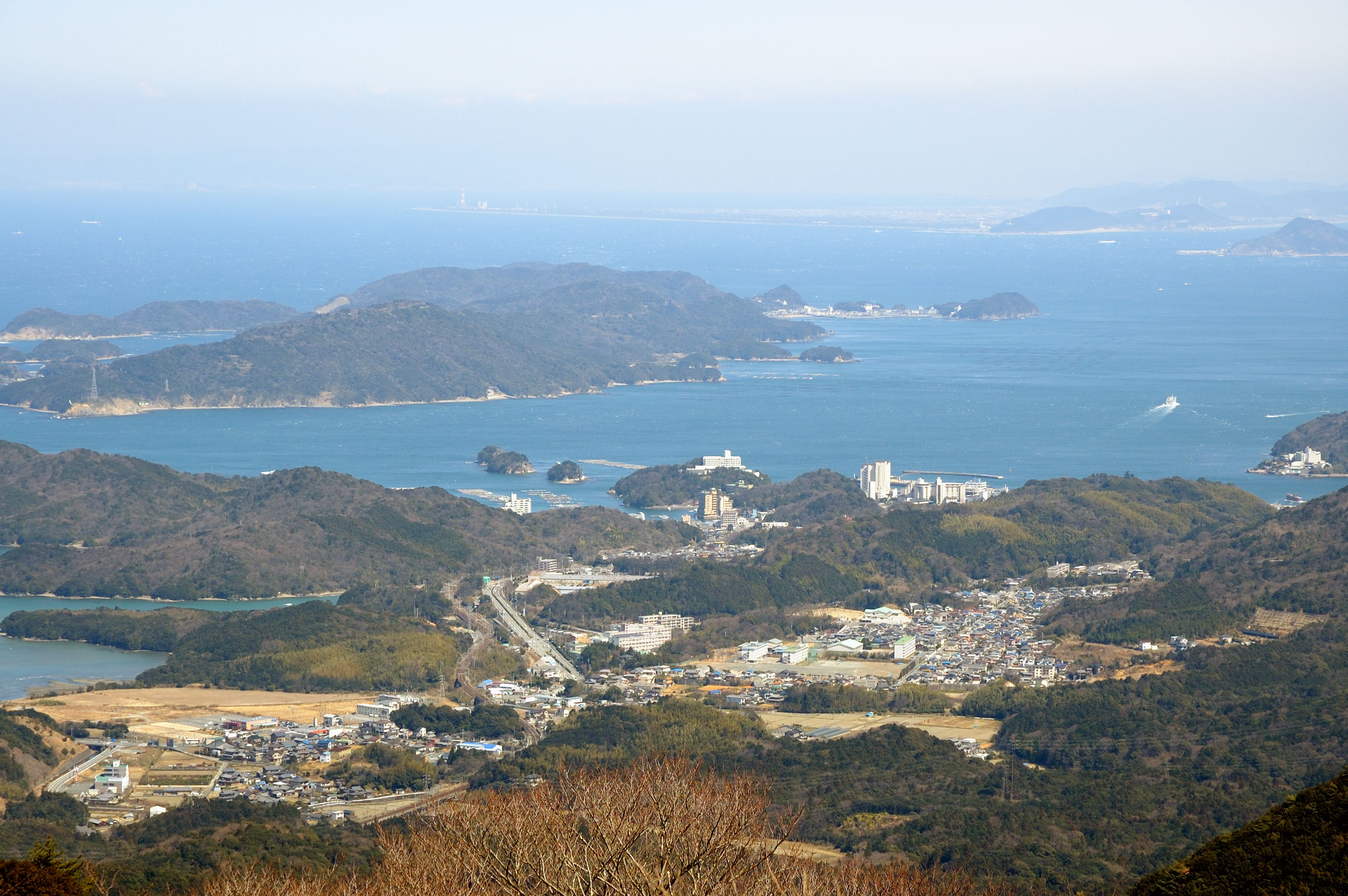 A view on the fragment of Toba City in the Mie Prefecture, Japan, from the Iseshima Skyline.